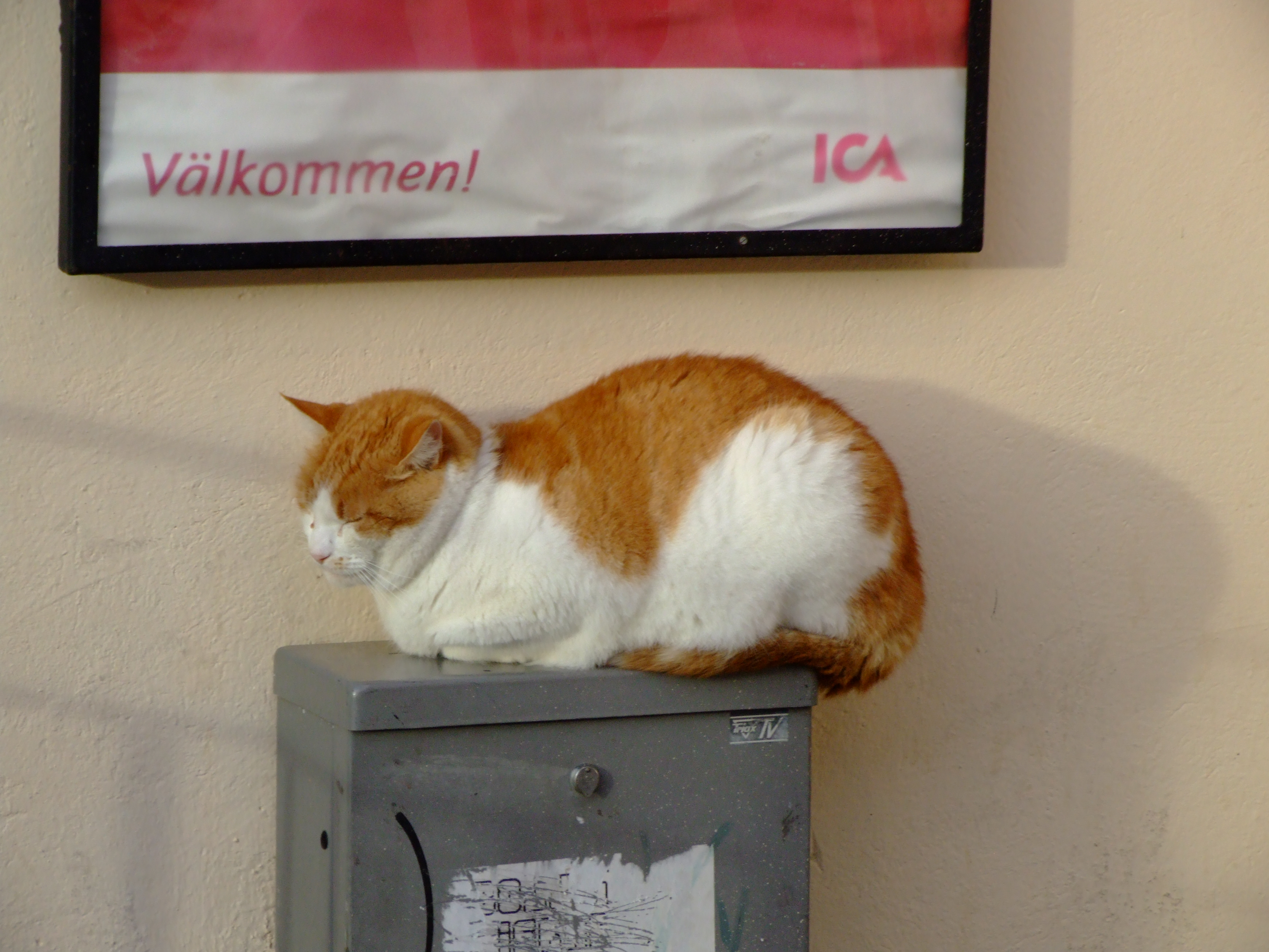 And yet still managing the tough balancing act. This famous cat was called "Knäcken" and was very often seen around the main square in Visby. A local celebrity.